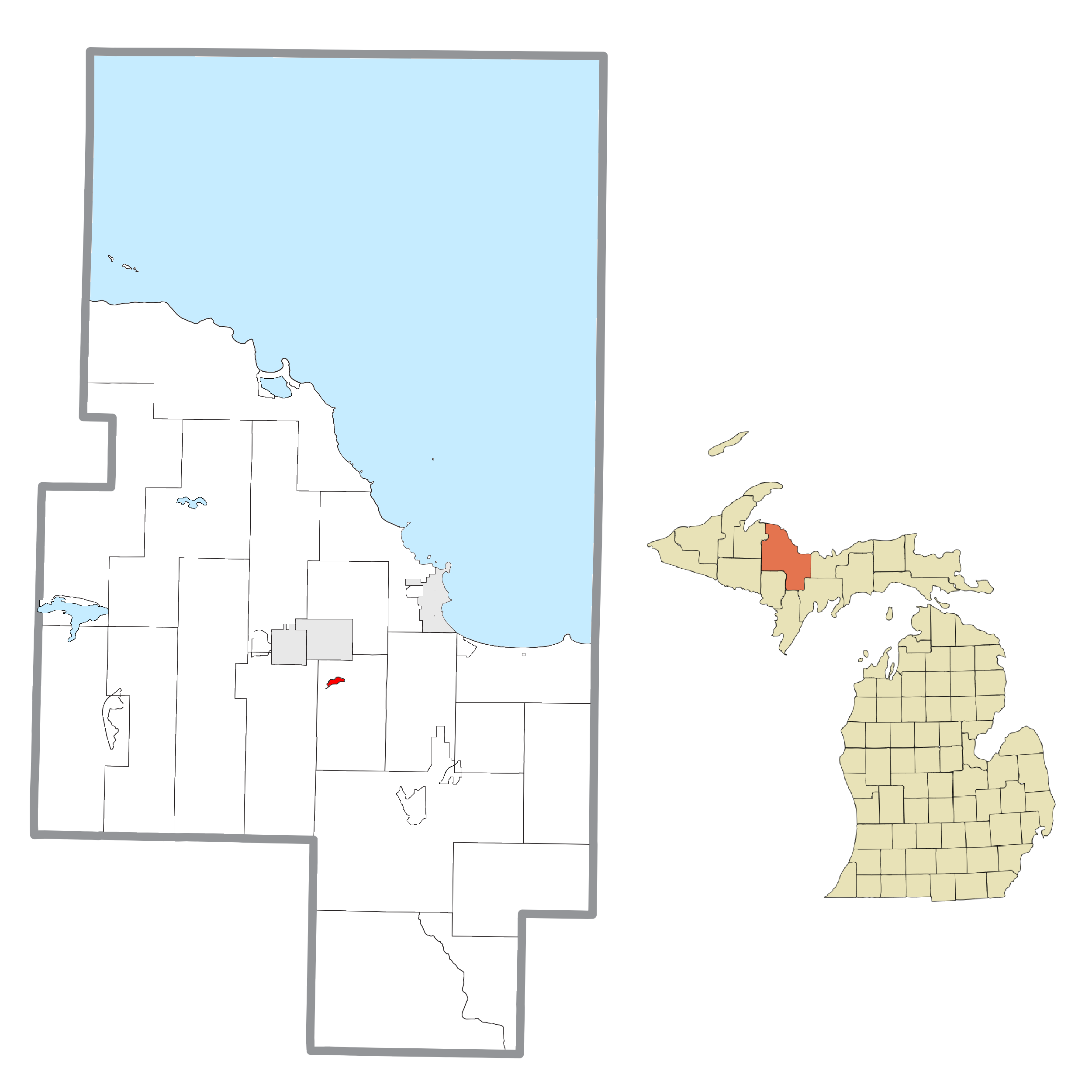 Palmer, MI